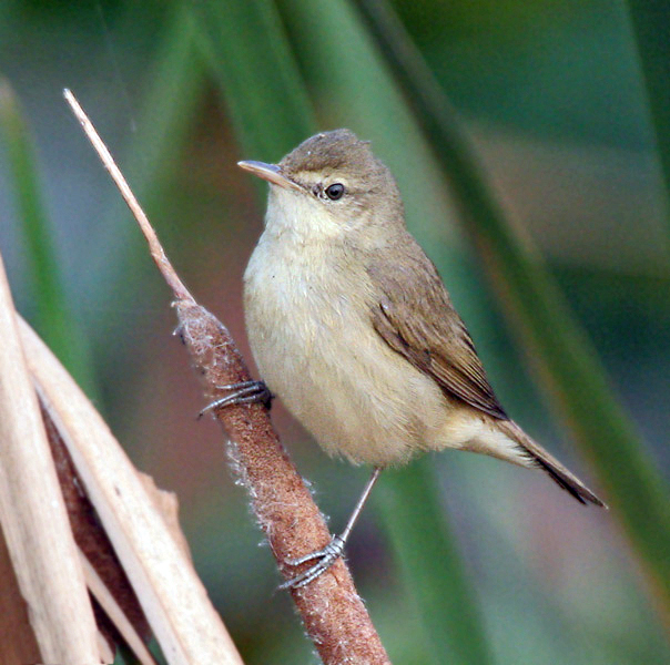 Blunt-winged Warbler (Acrocephalus concinens) in Kolkata, West Bengal, India.